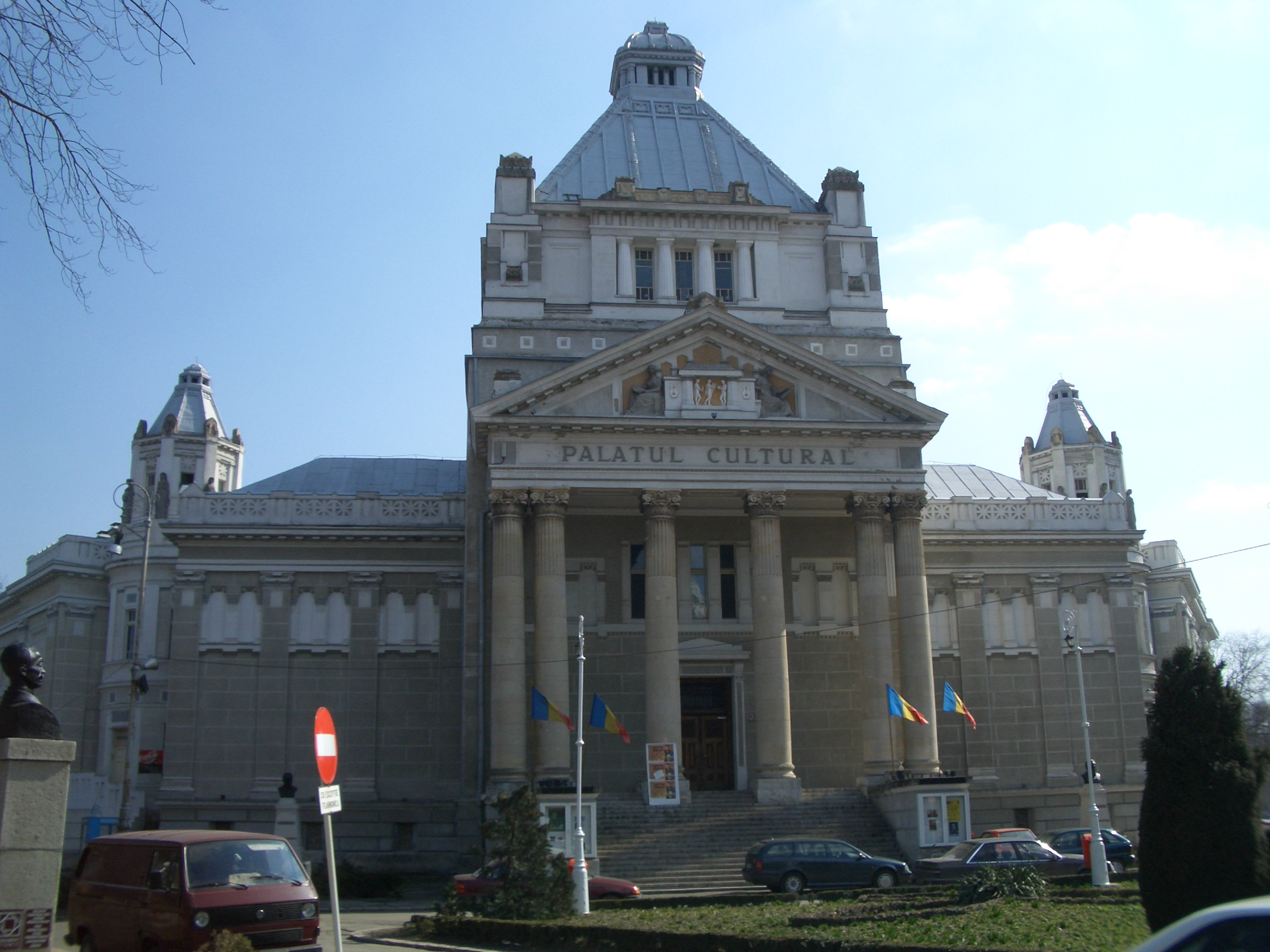 Palatul cultural, Arad, Romania (Palace of Culture, including a philharmonic concert hall and a museum)